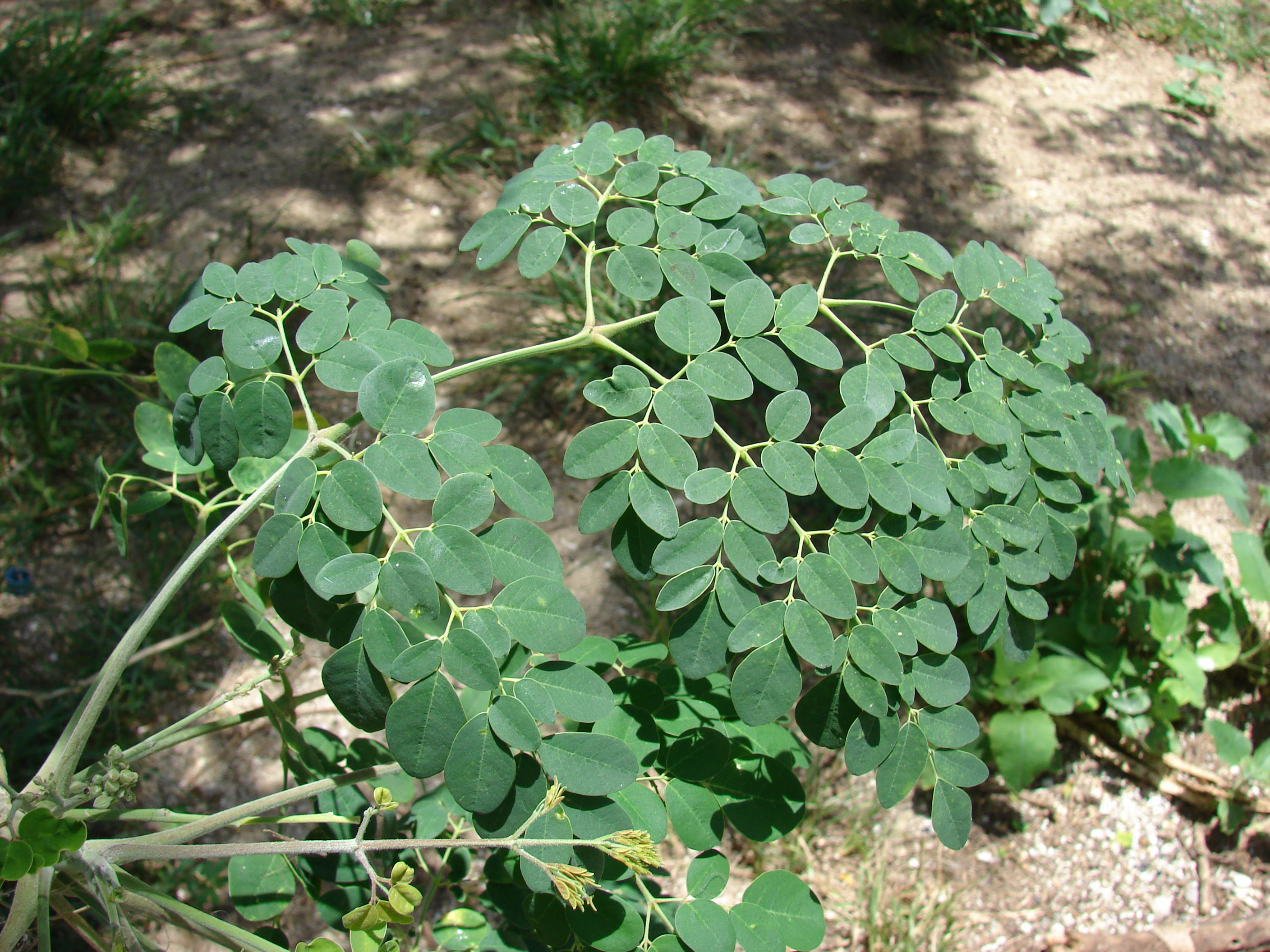 Moringa oleifera (leaves). Location: Midway Atoll, Community garden Sand Island